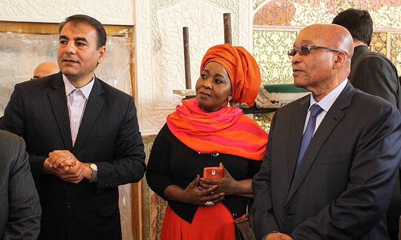 South African President Jacob Zuma visiting Isfahan, Iran after a state visit of country